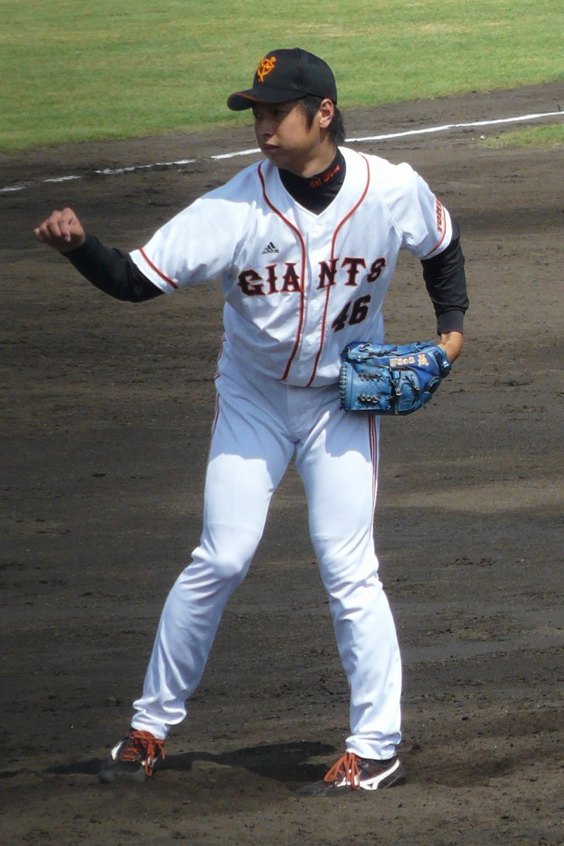 Toru Murata, pitcher of the Yomiuri Giants, at Yokkaichi Kasumigaura Baseball Stadium.